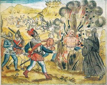 Picture from a Bartolomé de las Casas' account about the Spanish atrocities in Mexico.